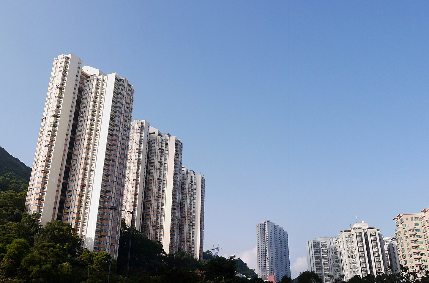 Hing Man Estate Full View